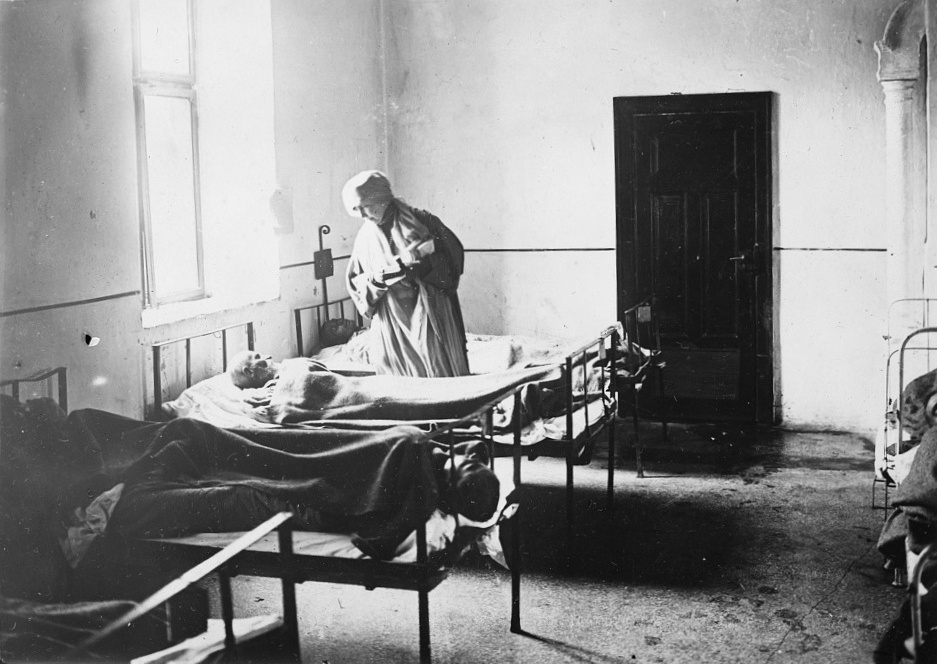 The photograph shows the Queen of Roumania visiting a typhus hospital near Bucharest. The hospital was operated by the Roumanian authorities, but was equipped throughout by the American Red Cross. Before the American beds, blankets, etc. arrived the patients were sleeping on the floors. The hospital is located in an old school building. It had only four large rooms, but accomodates more than a hundred patients.